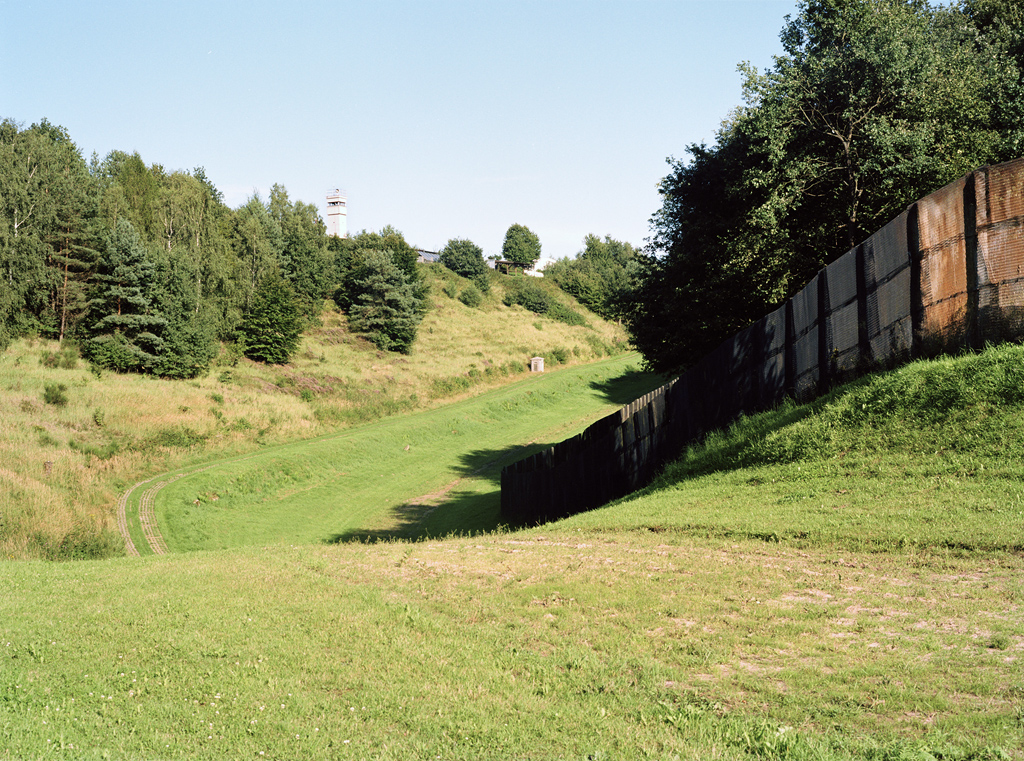 The former GDR border with its typical characteristics: concrete watchtower, metal fence, anti-vehicle trench, patrol road and a small bunker. This section of the border is part of the open-air exhibition of Schifflersgrund border museum near Bad Sooden-Allendorf.